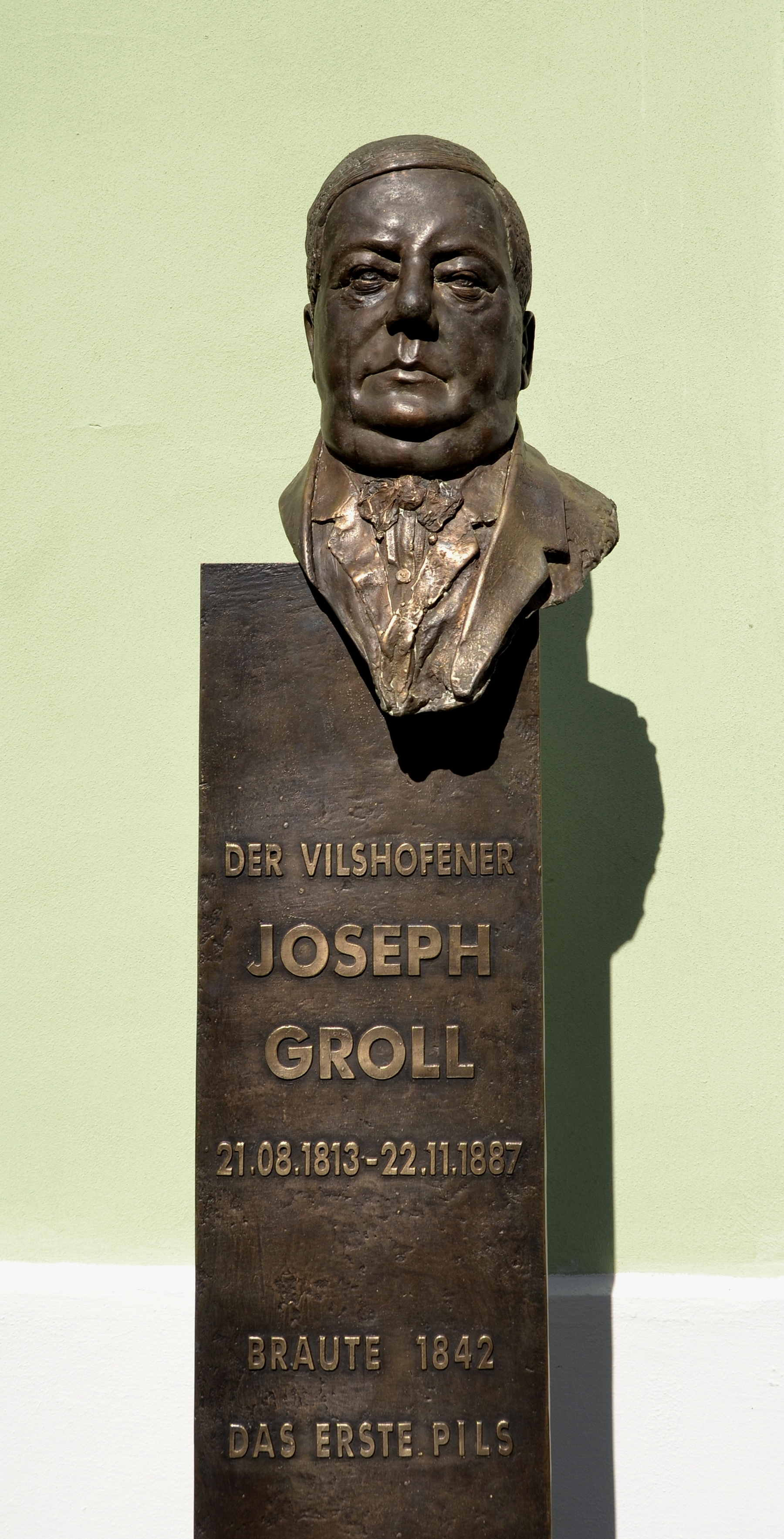 Joseph-Groll-bust in Vilshofen an der Donau, Bavaria.